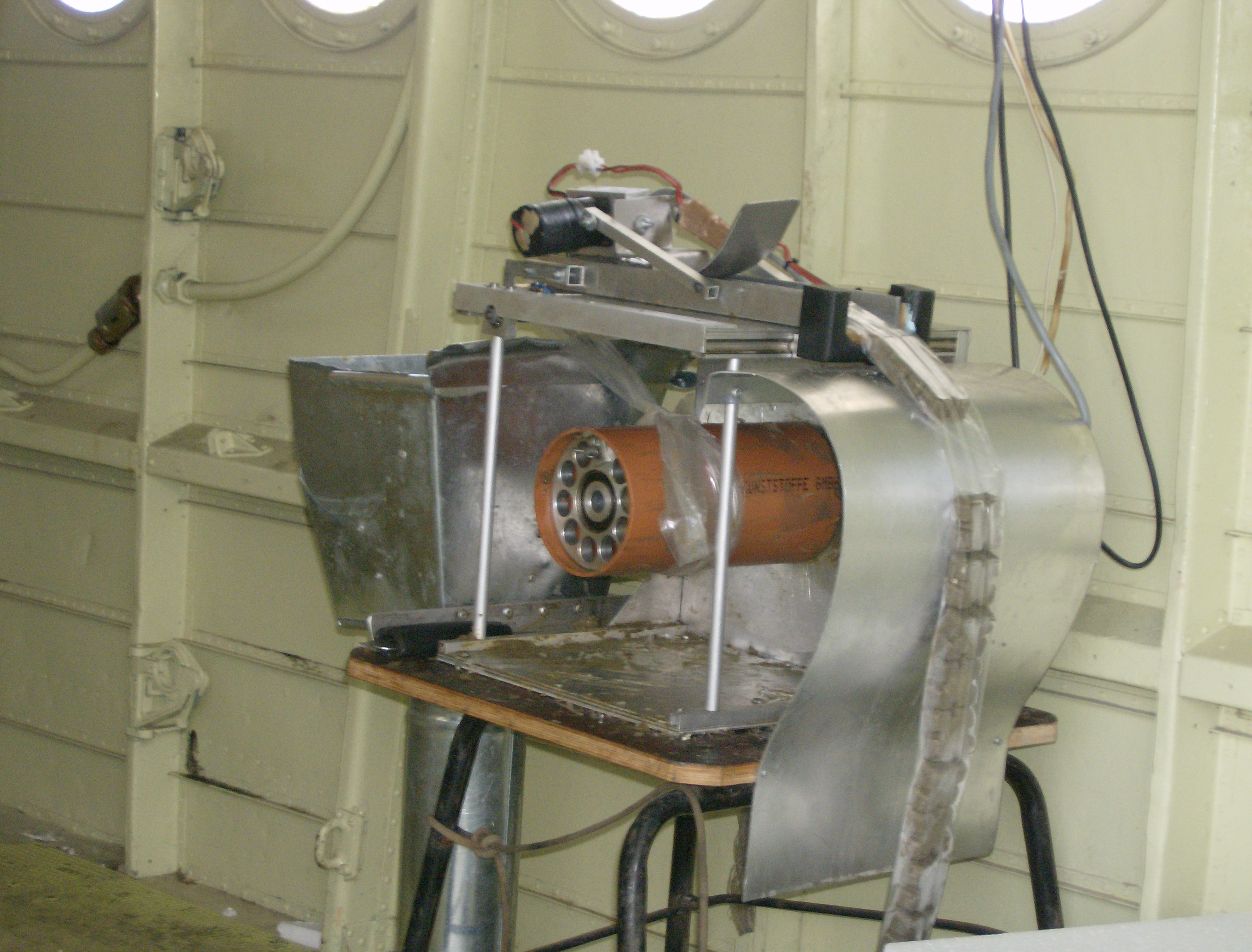 Vac. mashine